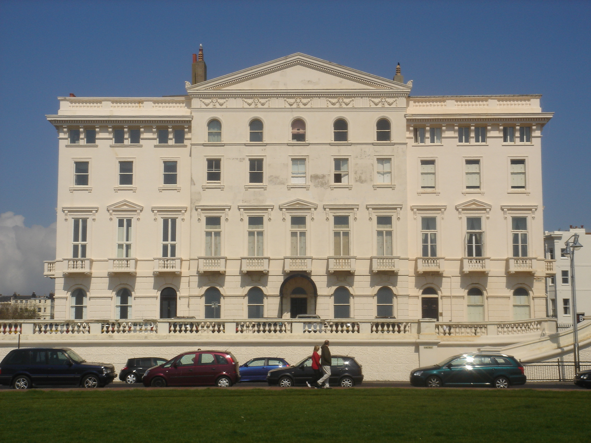 1–3 Adelaide Crescent, Hove, City of Brighton and Hove, England. These three houses are at the southeast corner of the crescent and face south across Kingsway to the sea. They were built in 1830–34.